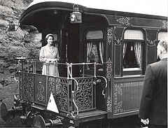 Queen Elizabeth II arriving at Leura onboard the royal train